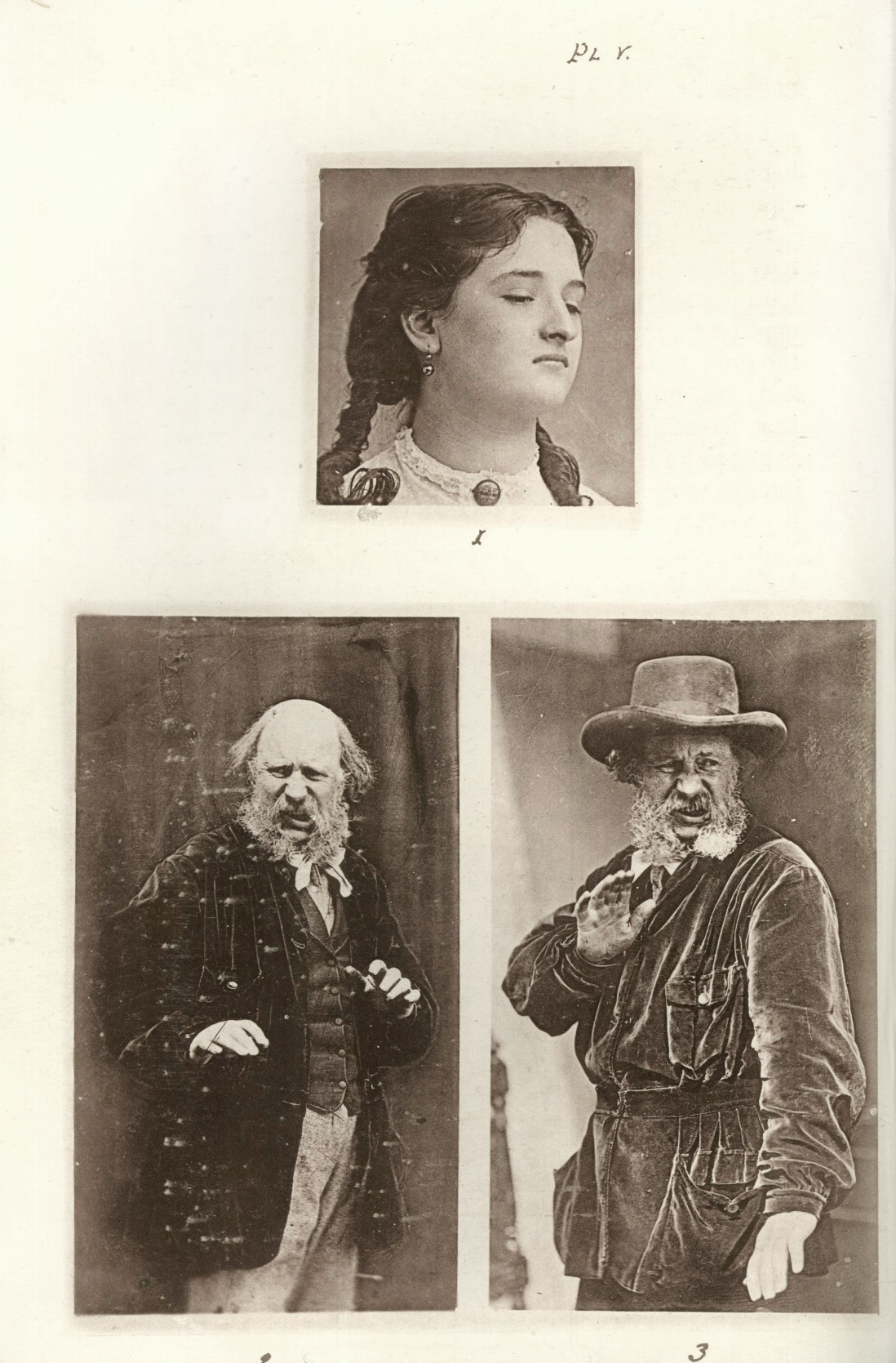 Plate IV from Charles Darwin's The Expression of the Emotions in Man and Animals. From Chapter XI: Disdain—Contempt—Disgust—Guilt—Pride, etc.—Helplessness—Patience—Affirmation and negation. The first photograph by Oscar Gustave Rejlander shows "a young lady, who is supposed to be tearing up a photograph of a despised lover." (p. 254)